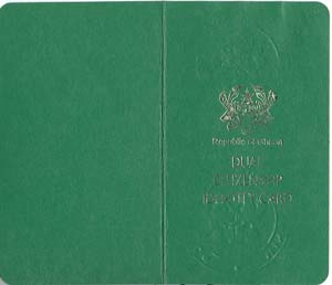 Ghana Duel Citizenship Identity Card